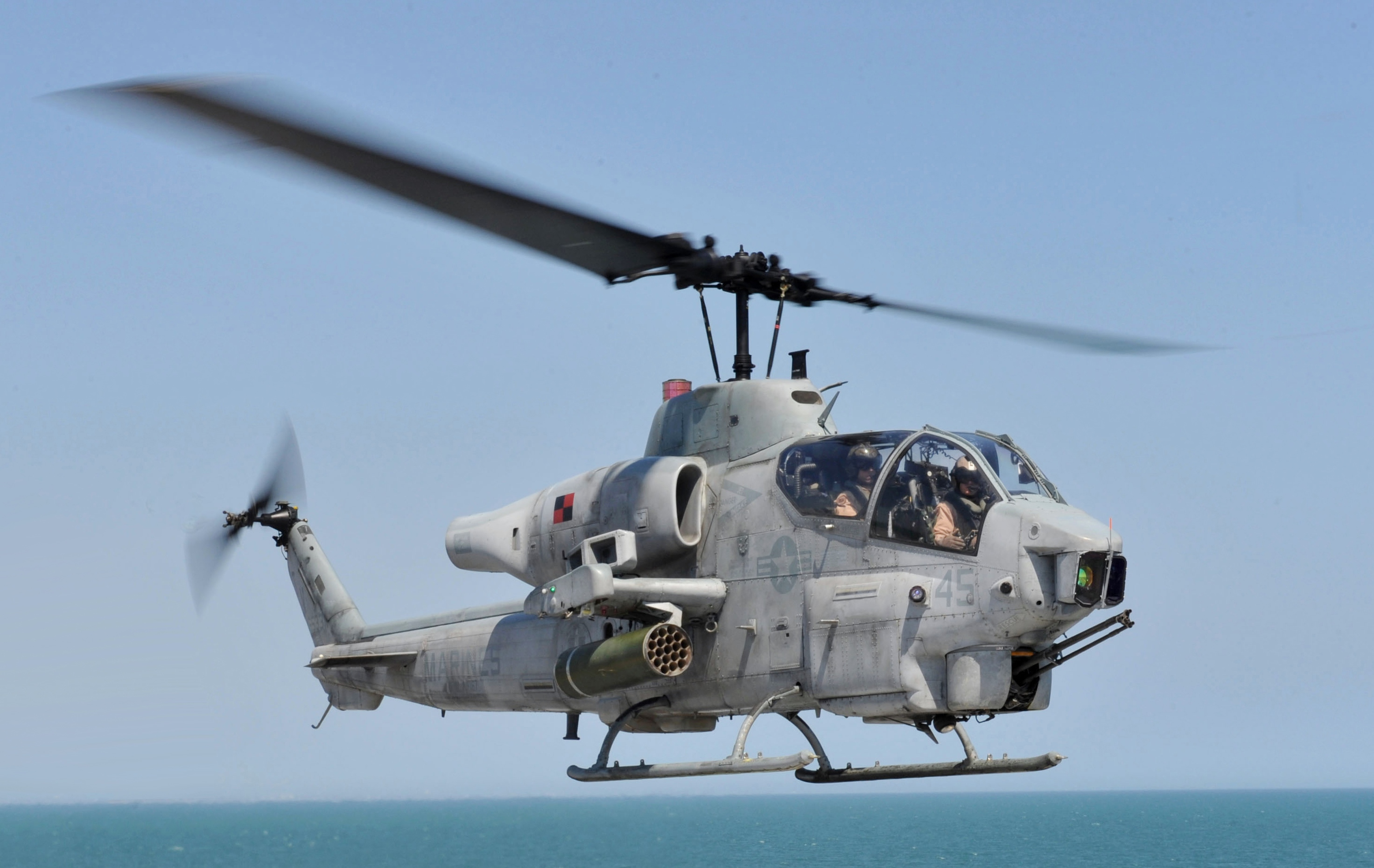 The AH-1W Super Cobra taking off is assigned to Marine Light-Helicopter Squadron (HMLA) 167. Bataan is underway conducting training operations and qualifications.